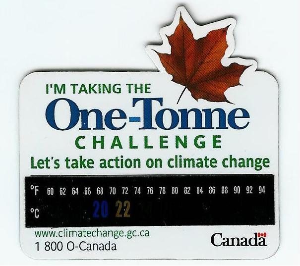 One of the promotional giveaways for the One-Tonne challenge. This is a magnet with a temperature indictator. Scanned image of the actual object. Used to expand the One-Tonne Challenge article